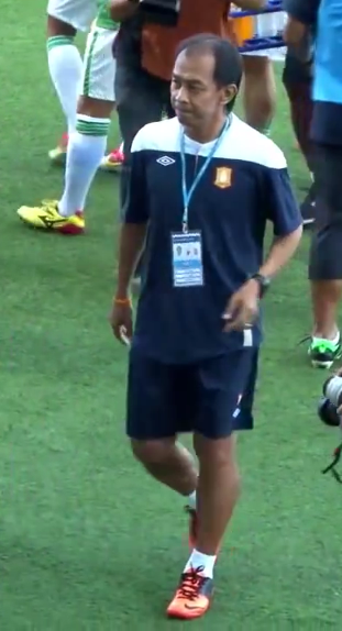 Picture of Attaphol Buspakhom in 2013 Thai Premier League